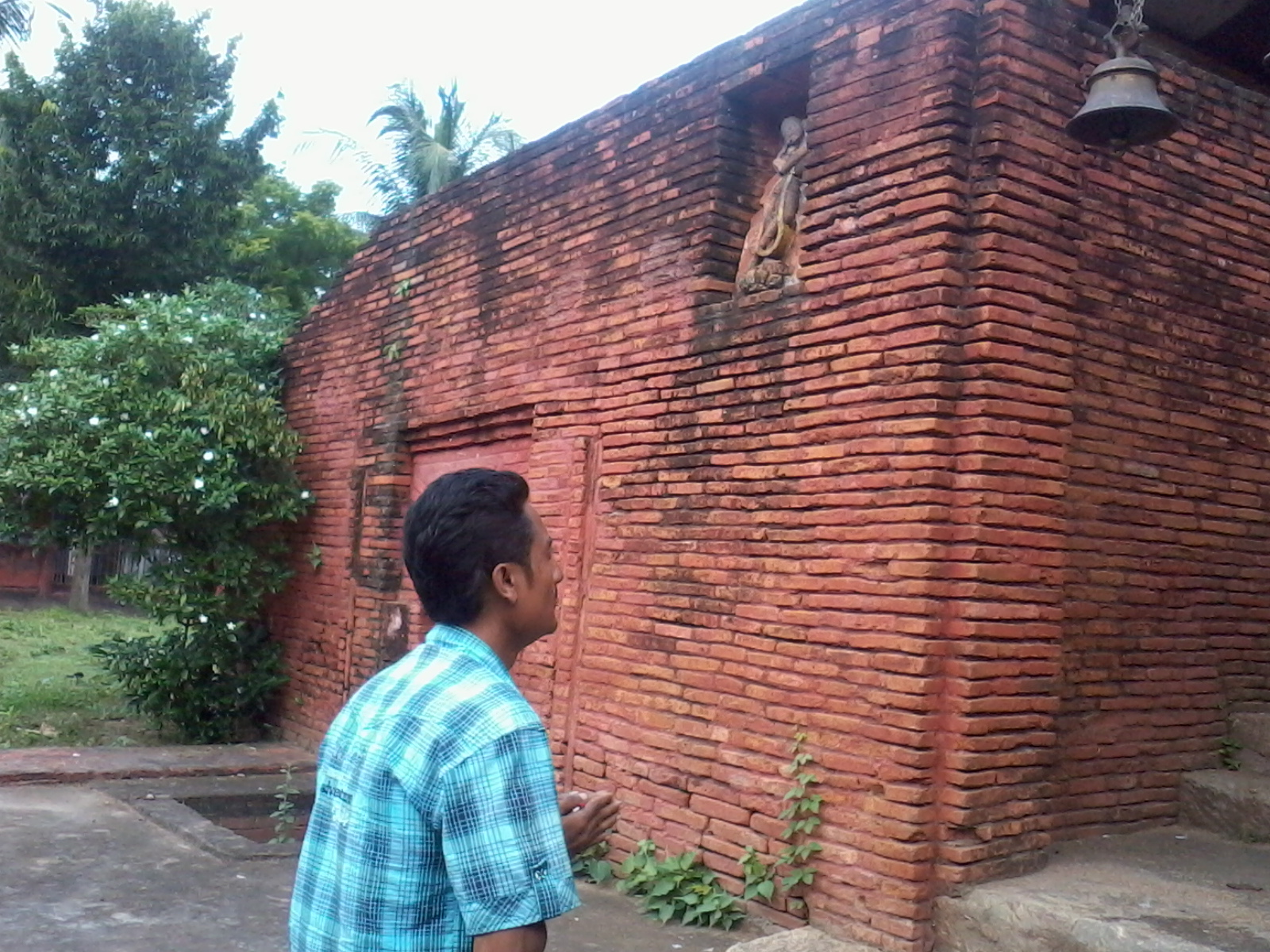 visited Rudreswar Devaloya in North Guwahati and took the photo